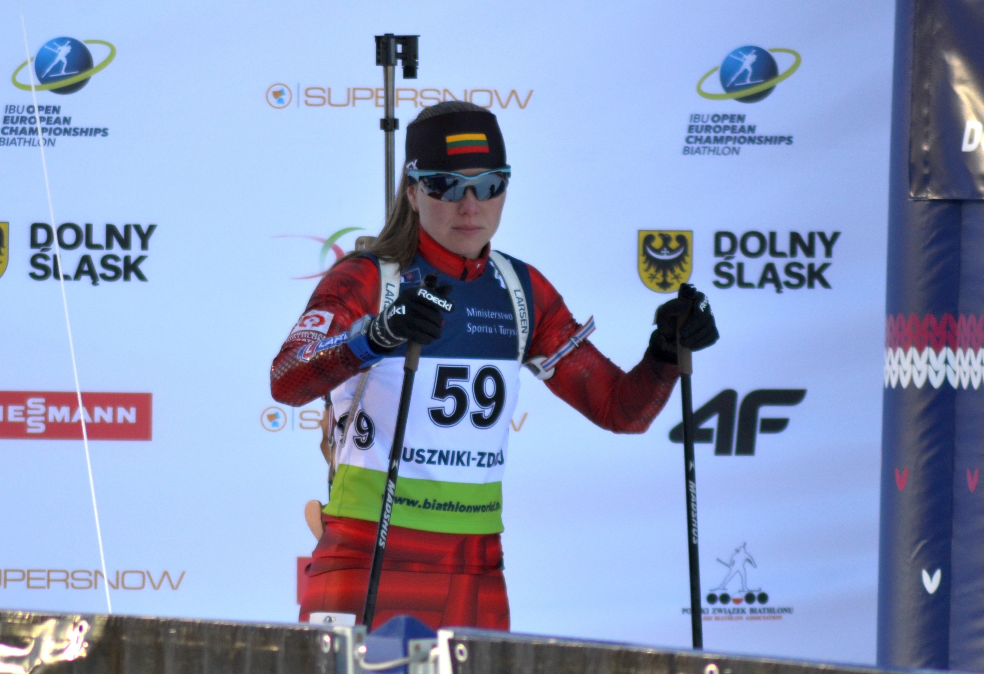 Open European Championships Biathlon 2017, Sprint Women's race, held on January 27th.